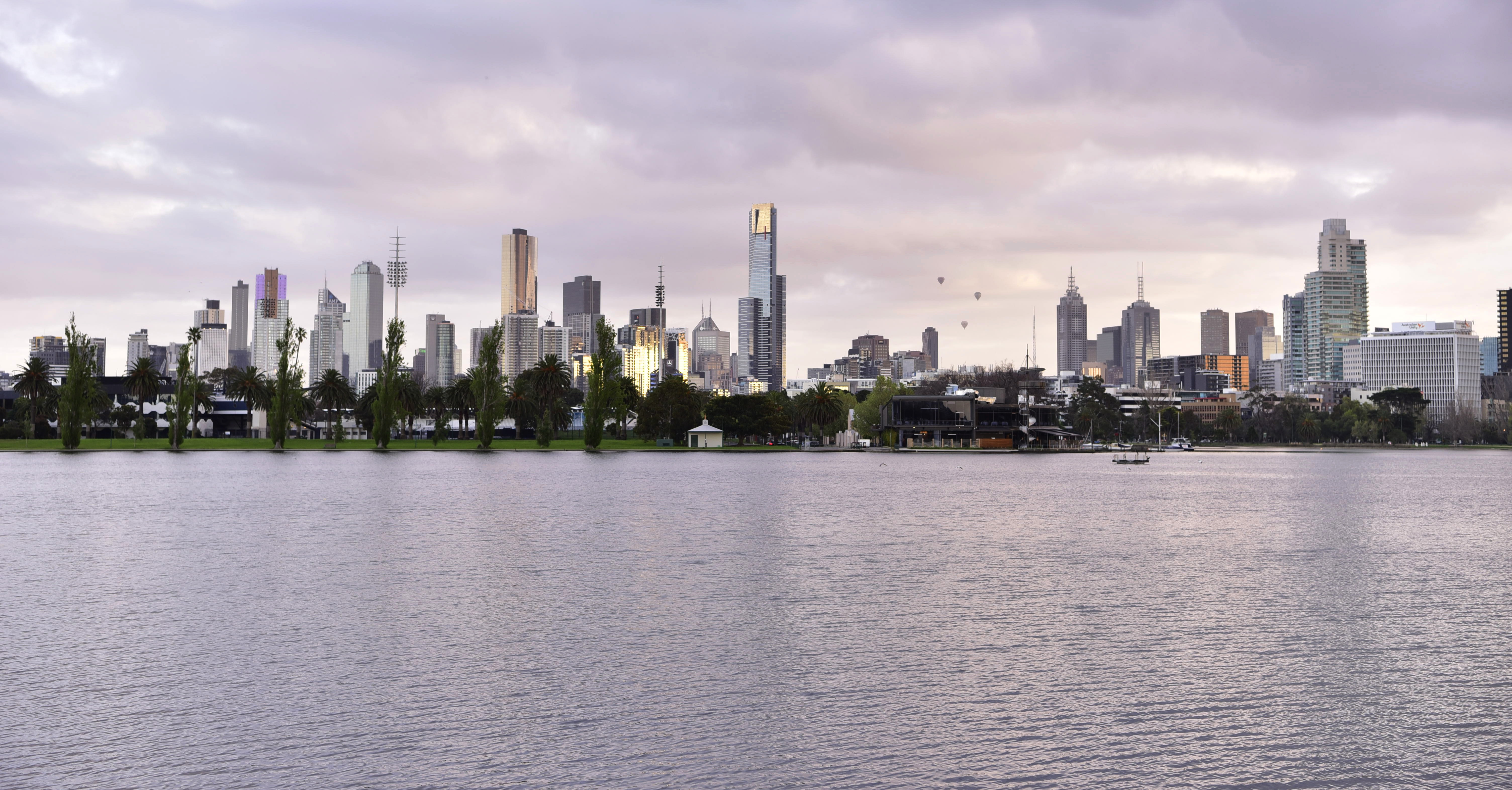 Lake of Albert Park & Melbourne City Skylines, in 2016.